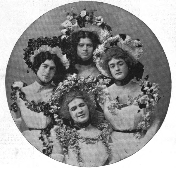 Theatricals performed by the Boston Cadets, Massachusetts, USA